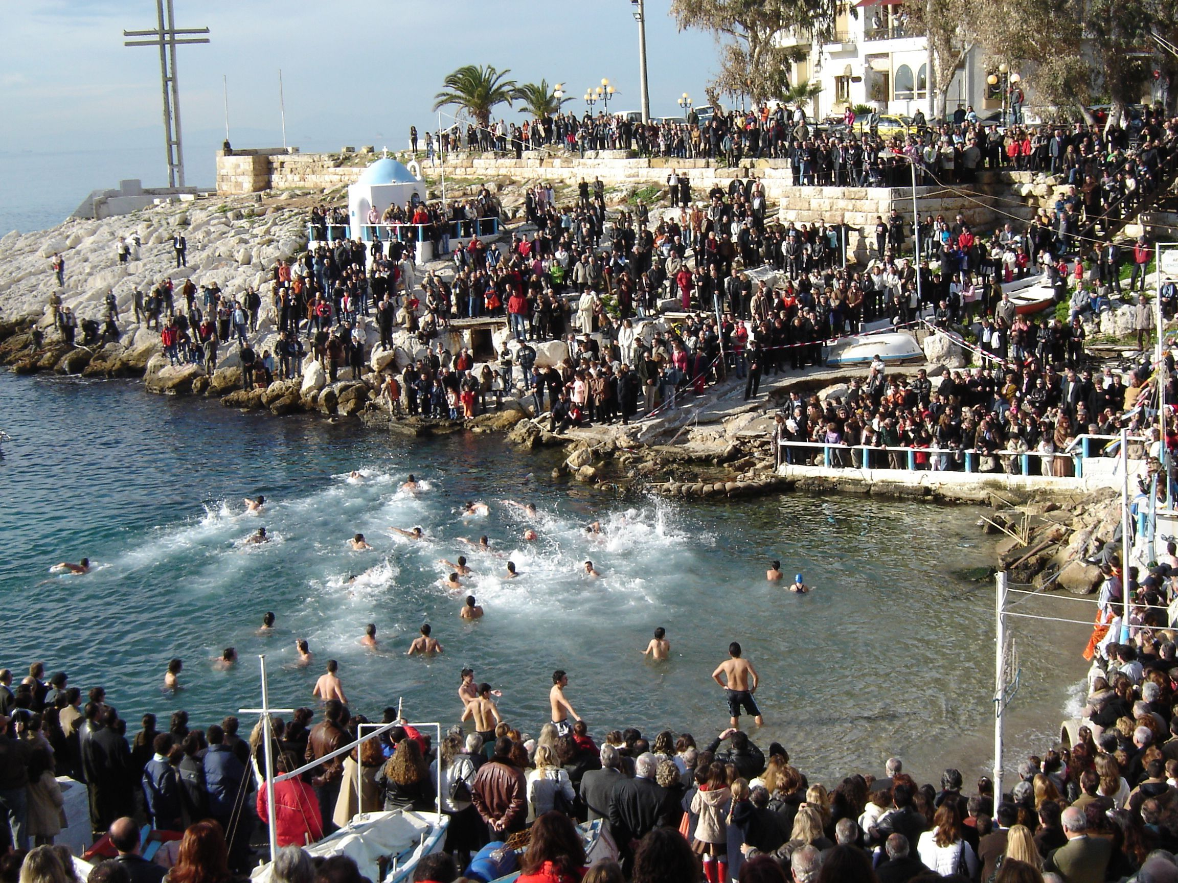 Afroditi Roadstead at Peiraiki, Piraeus, at Epiphany